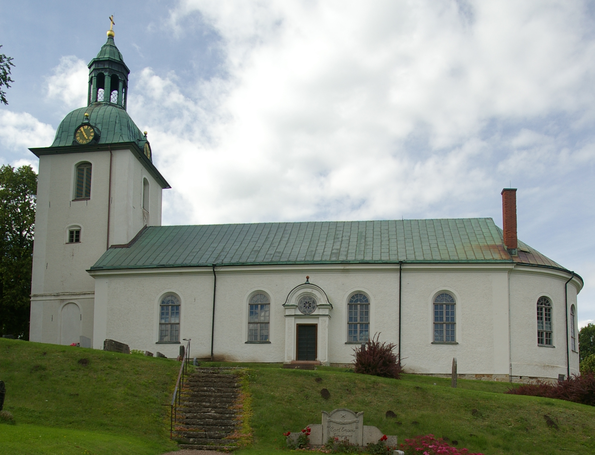 Slöta kyrka (Swedish:Church of Slöta) in Västergötland, Sweden.